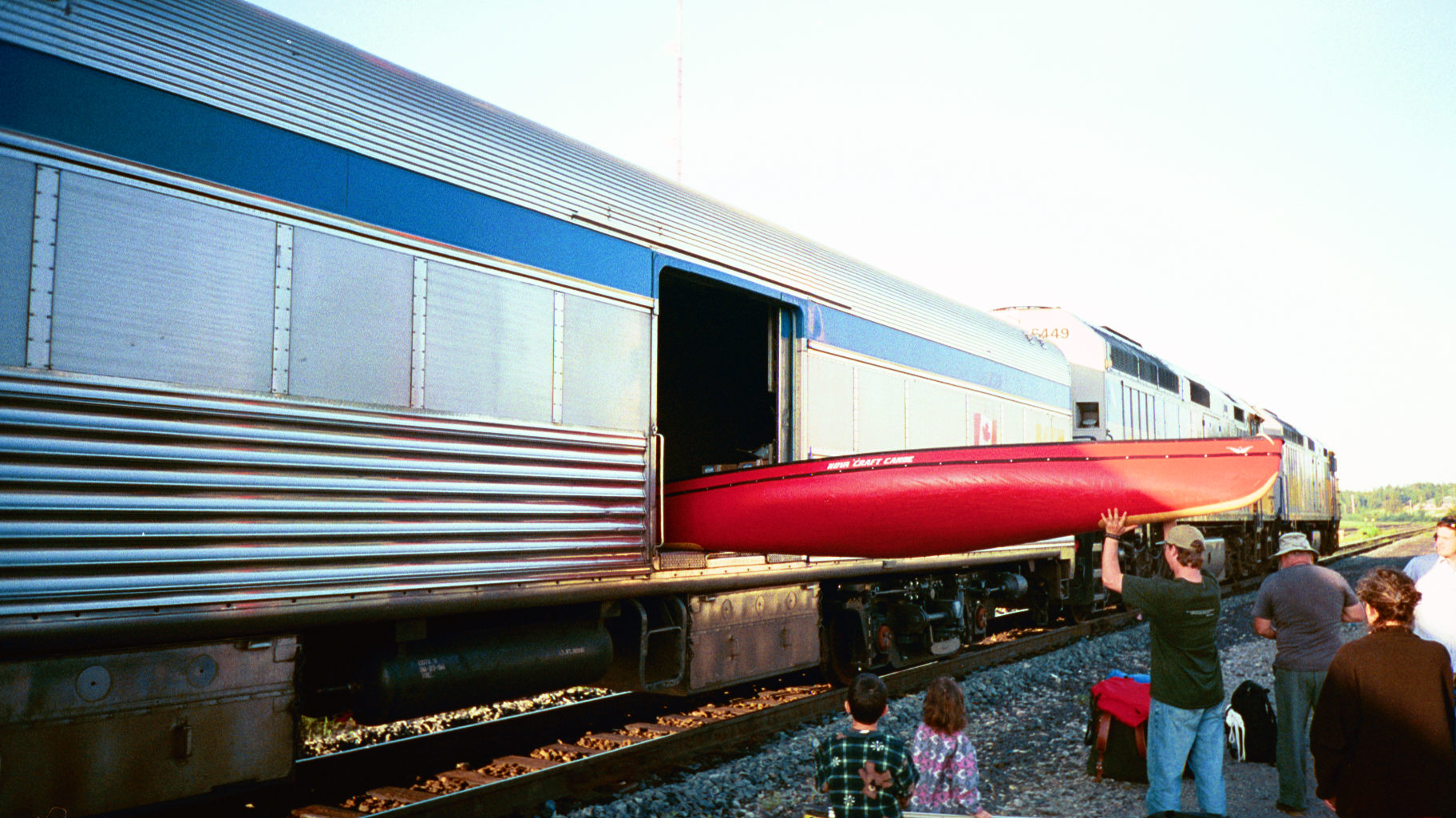 Loading a canoe into baggage car of VIA Rails The Canadian. Photo taken June 2000.